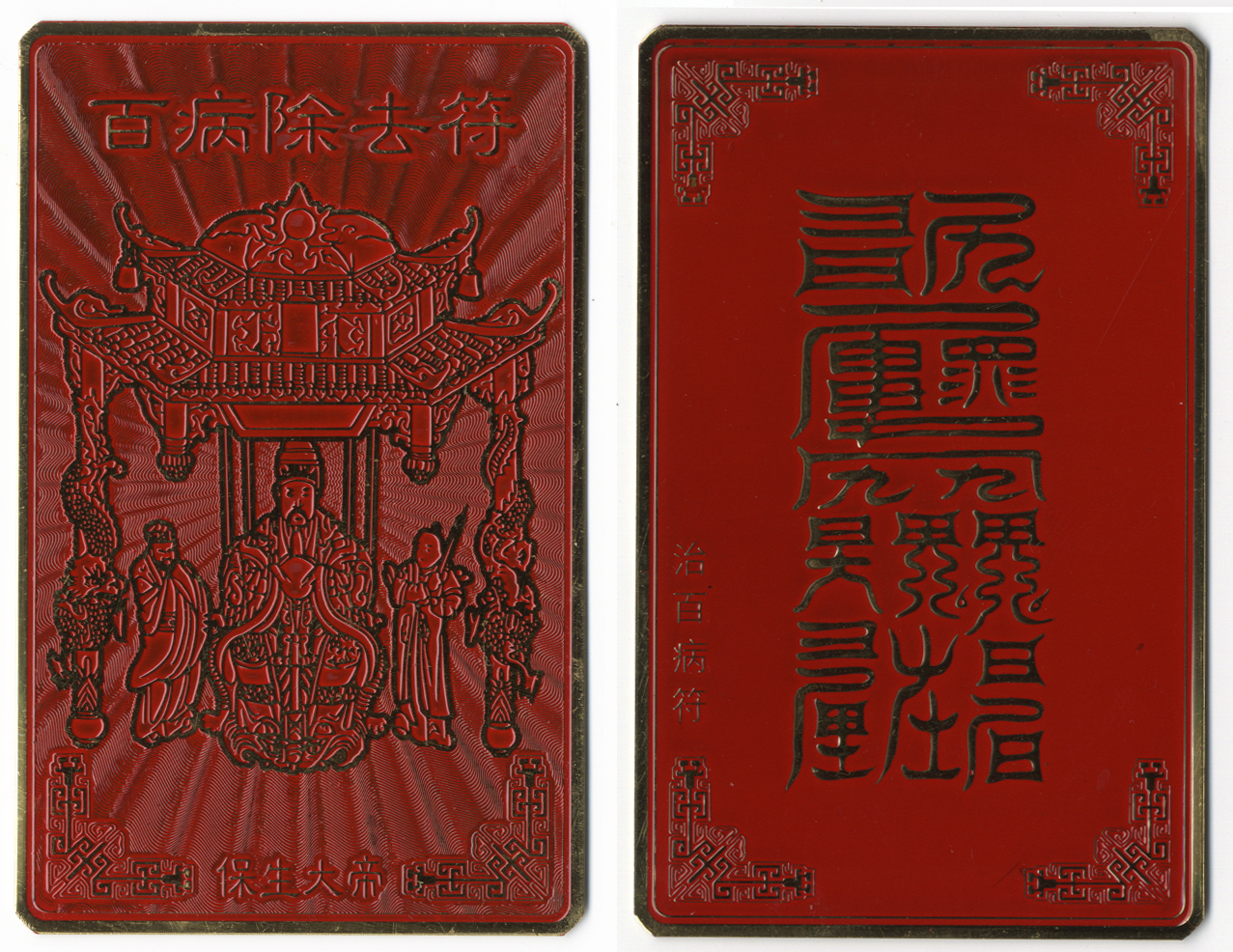 Baoshengdadi Amulet against illness. Baoshengdadi (Life Protecting Emperor), Chinese god of medicine.